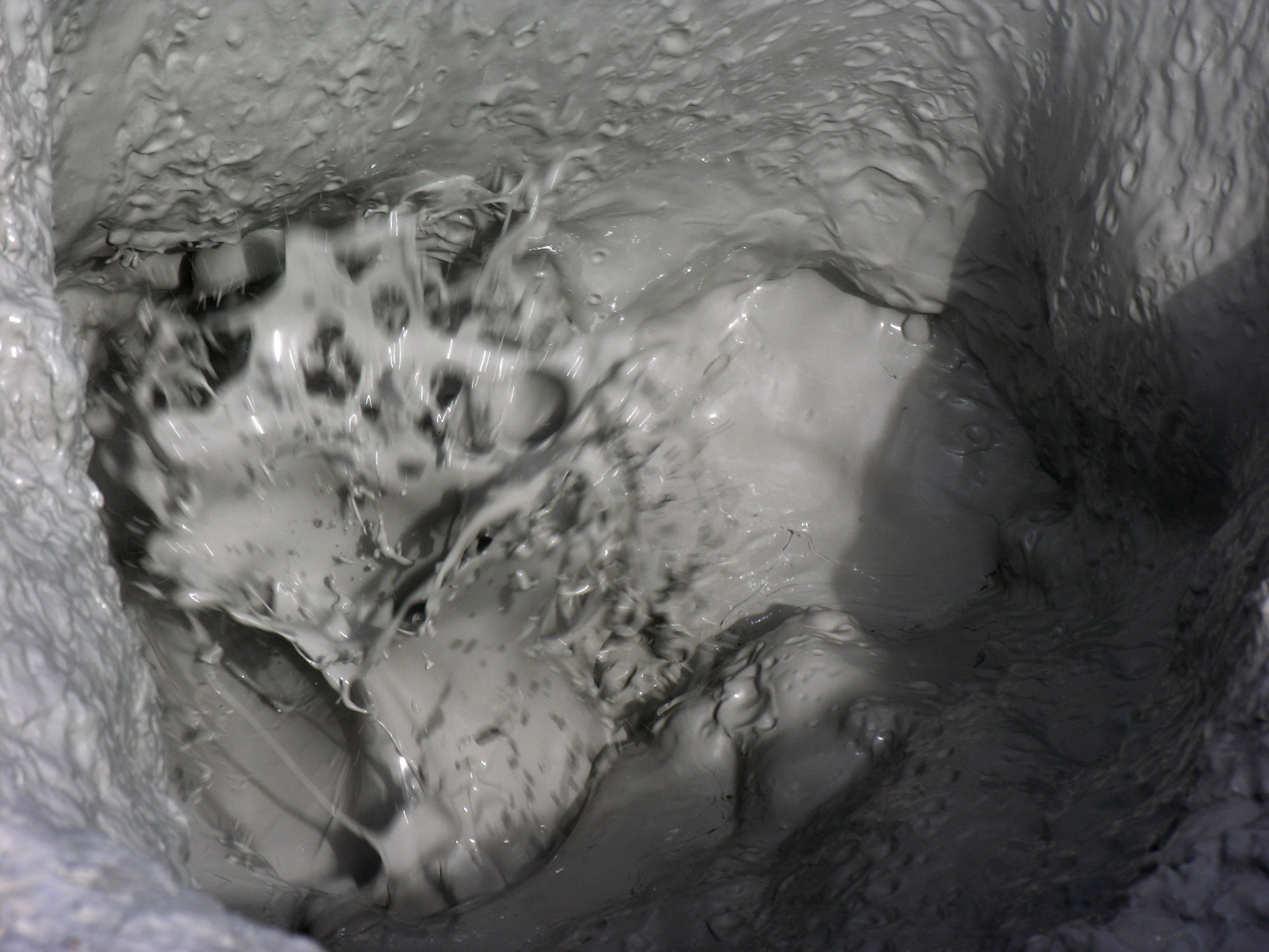 Iceland, Hengill